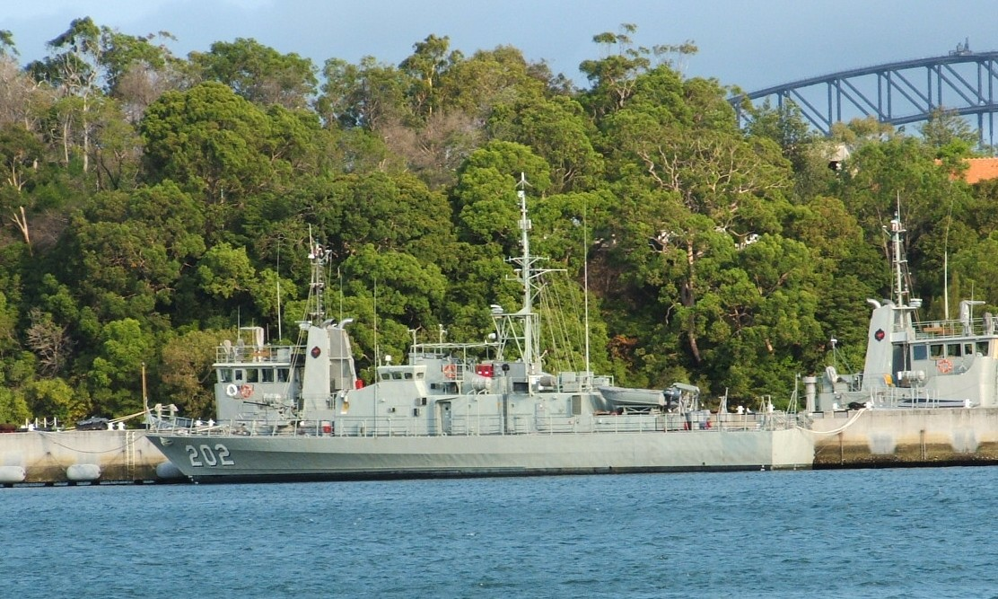 This is a photograph of a Royal Australian Navy Fremantle class patrol boat, taken at HMAS Waterhen. The actual vessel is ex HMAS WOLLONGONG, although it has been modified to represent the fictional HMAS Hammersley, the centrpiece of the Sea Patrol television series.